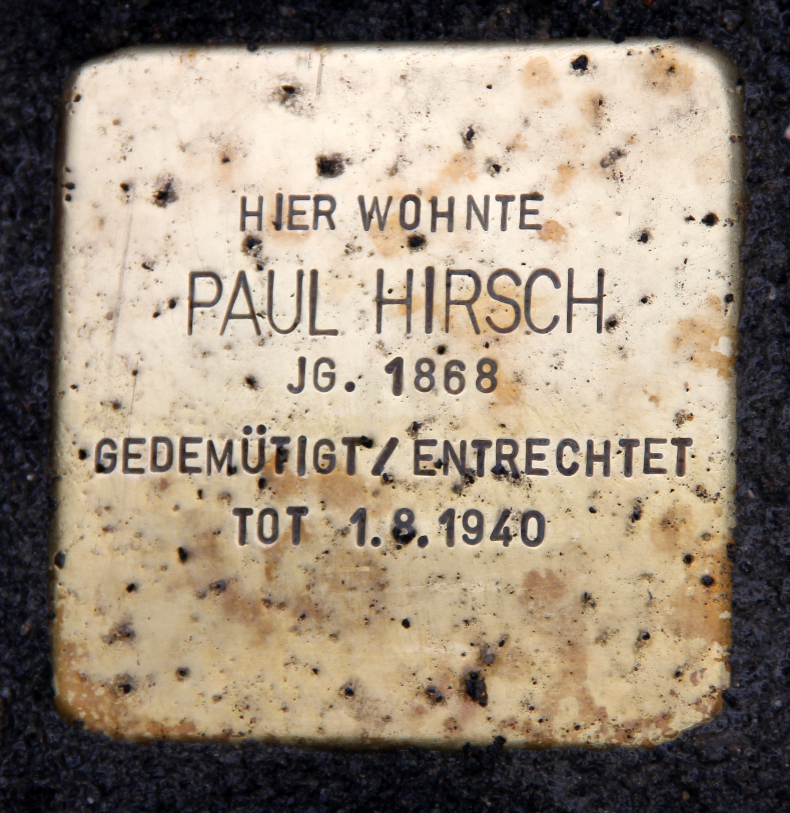 "Stolperstein" (stumbling block), Paul Hirsch, Gervinusstraße 24, Berlin-Charlottenburg, Germany